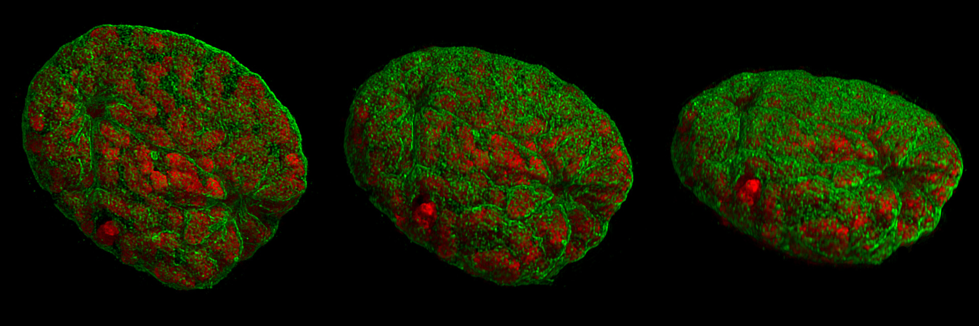 3D-representation of a mouse cell nucleus from different angles. Recorded with 3D Structured Illumination Microscopy (3D-SIM-microscopy). The cell is in an early stage of nuclear division (prophase). The chromosomes (red) are already condensed, to be distributed to the daughter cells later on. The surrounding nuclear envelope (green) shows prominent invaginations and first disruptions. For further information see: Schermelleh L, Carlton PM, Haase S, Shao L, Winoto L, Kner P, Burke B, Cardoso MC, Agard DA, Gustafsson MG, Leonhardt H, Sedat JW (June 2008). "Subdiffraction multicolor imaging of the nuclear periphery with 3D structured illumination microscopy". Science (journal) 320 (5881): 1332–6. PMID 18535242.